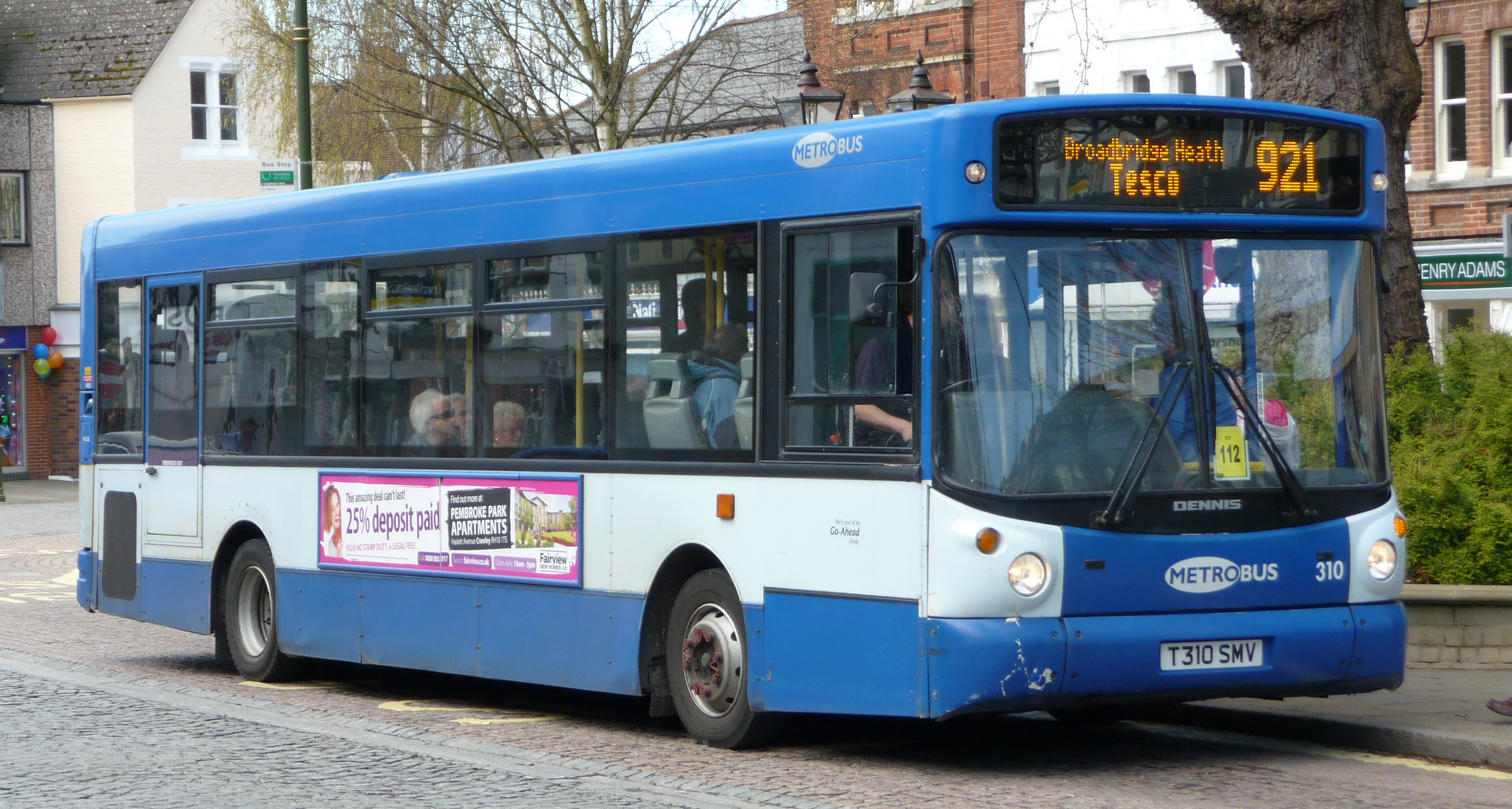 Metrobus 310 (T310 SMV), a Dennis Dart SLF/Alexander ALX200, in Carfax, Horsham, on route 921.